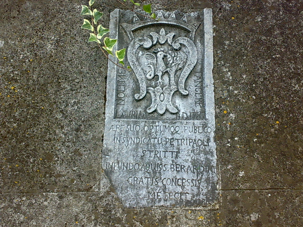 Bas-relief with the emblem of Lauria's municipality